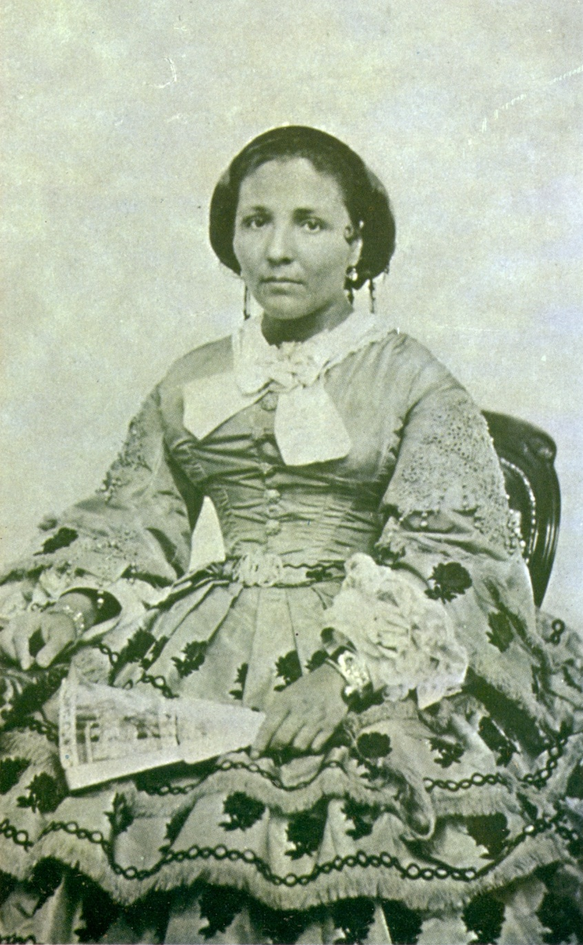 Maria Joaquina de Sousa, wife of the Viscount of Mauá, c.1861